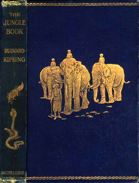 Low-resolution scanned image of the cover of the first edition of The Jungle Book by Rudyard Kipling (1865-18th January 1936), illustrated by John Lockwood Kipling (1837-1911) and downloaded on english wikipedia by (Sanjay Tiwari 00:37, 10 October 2006 (UTC)) from the website [1]. Since both the author and illustrator passed away more than 70 years ago, the cover image is now in the public domain in the U.S.